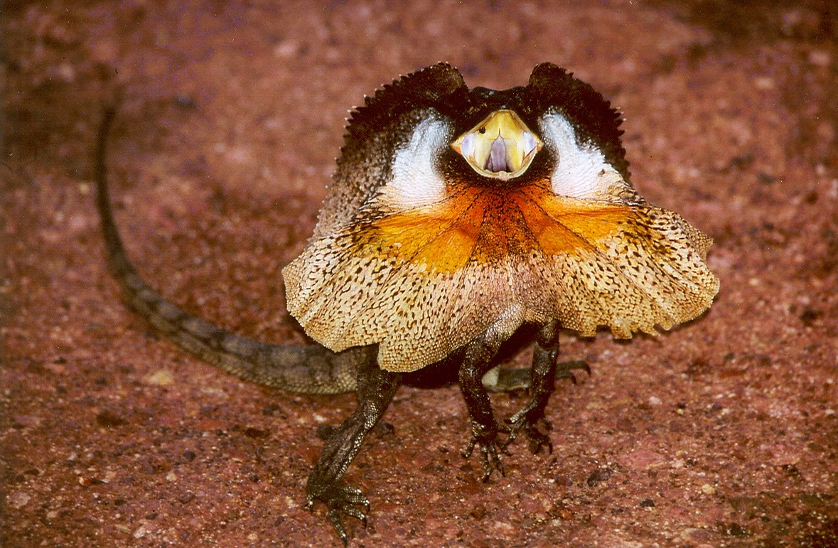 Kragenechse (Chlamydosaurus kingii)